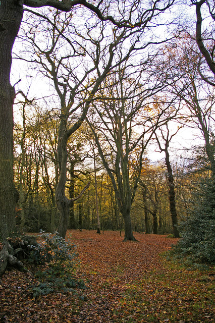 Epping Forest near Pole Hill, London E4 Looking west through the trees just north of Pole Hill.